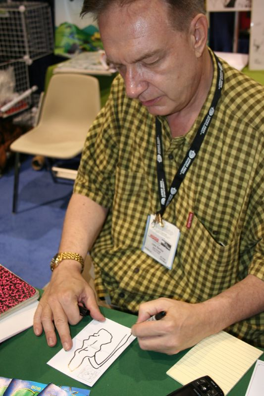 Bob Burden, American artist and writer, best known as the creator of Flaming Carrot Comics and the Mystery Men.